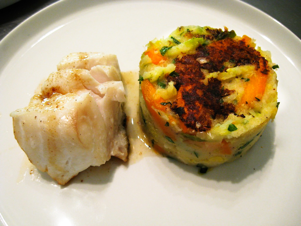 Cod and stoemp